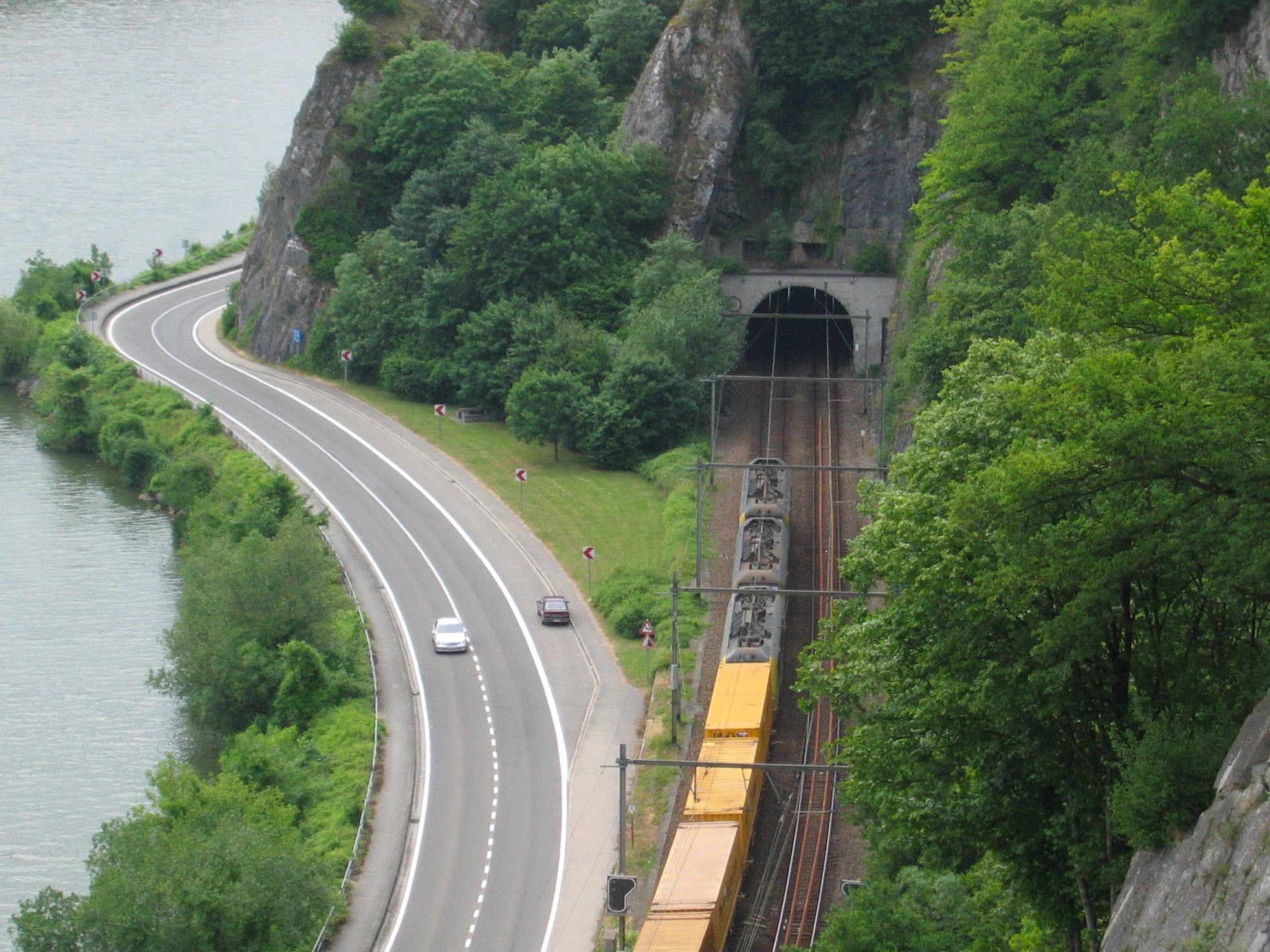 Godinne Tunnel - line 154 - south entrance